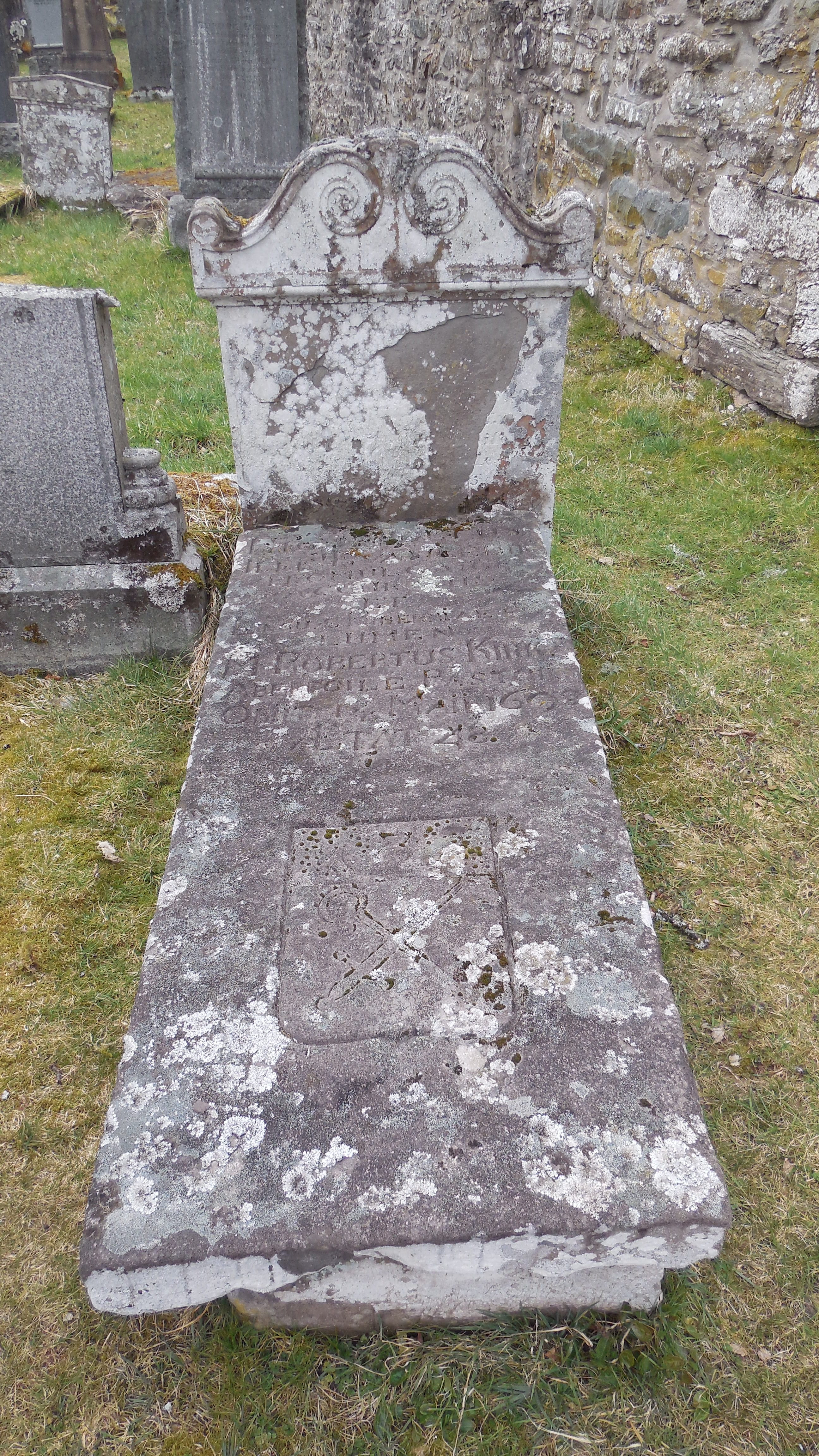 The grave of Robert Kirk, minister in Aberfoyle, and author of the Secret Commonwealth of Elves, Faunes and Fairies